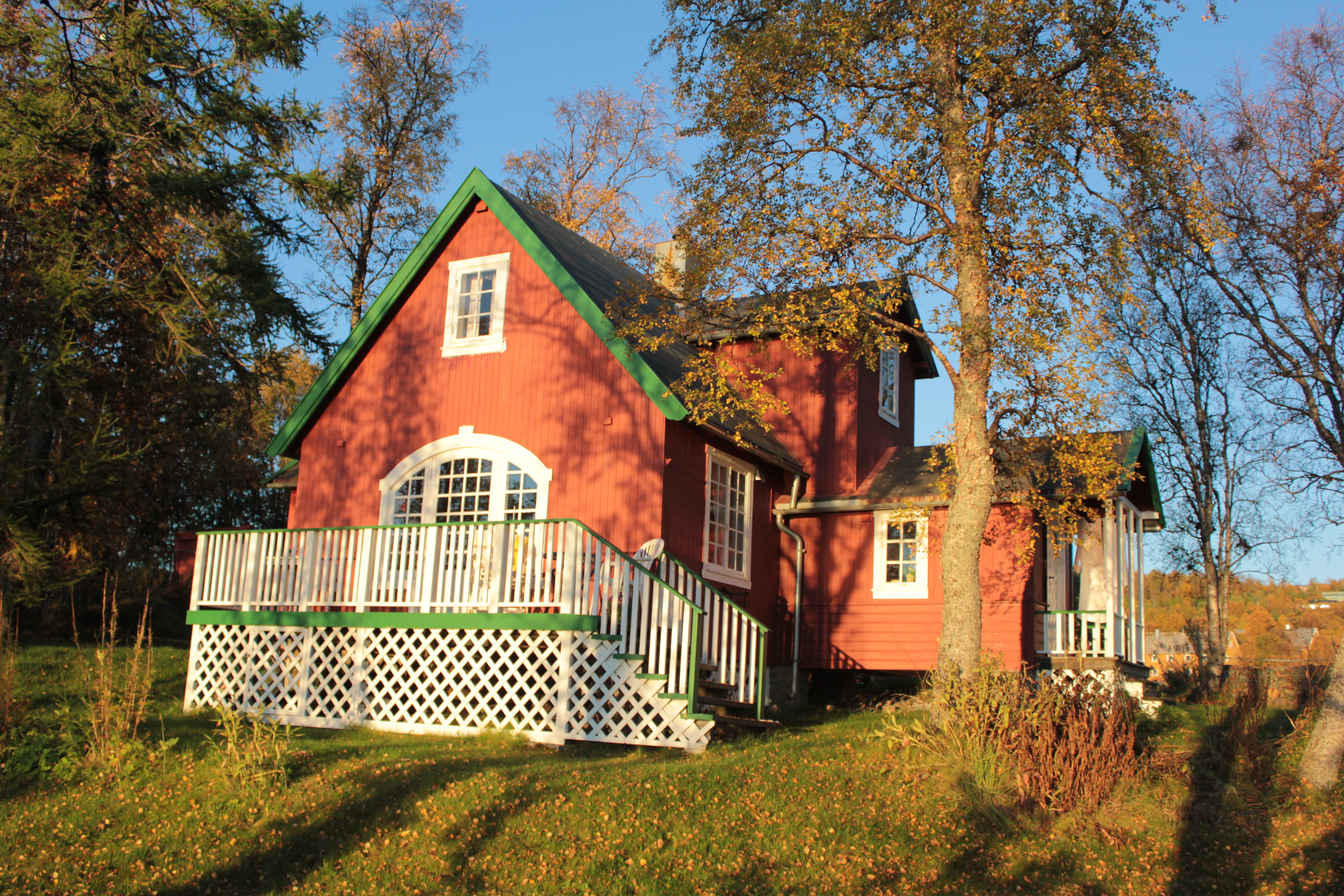 Lille Strandheim. Villa/holiday house in Tromsø Norway.